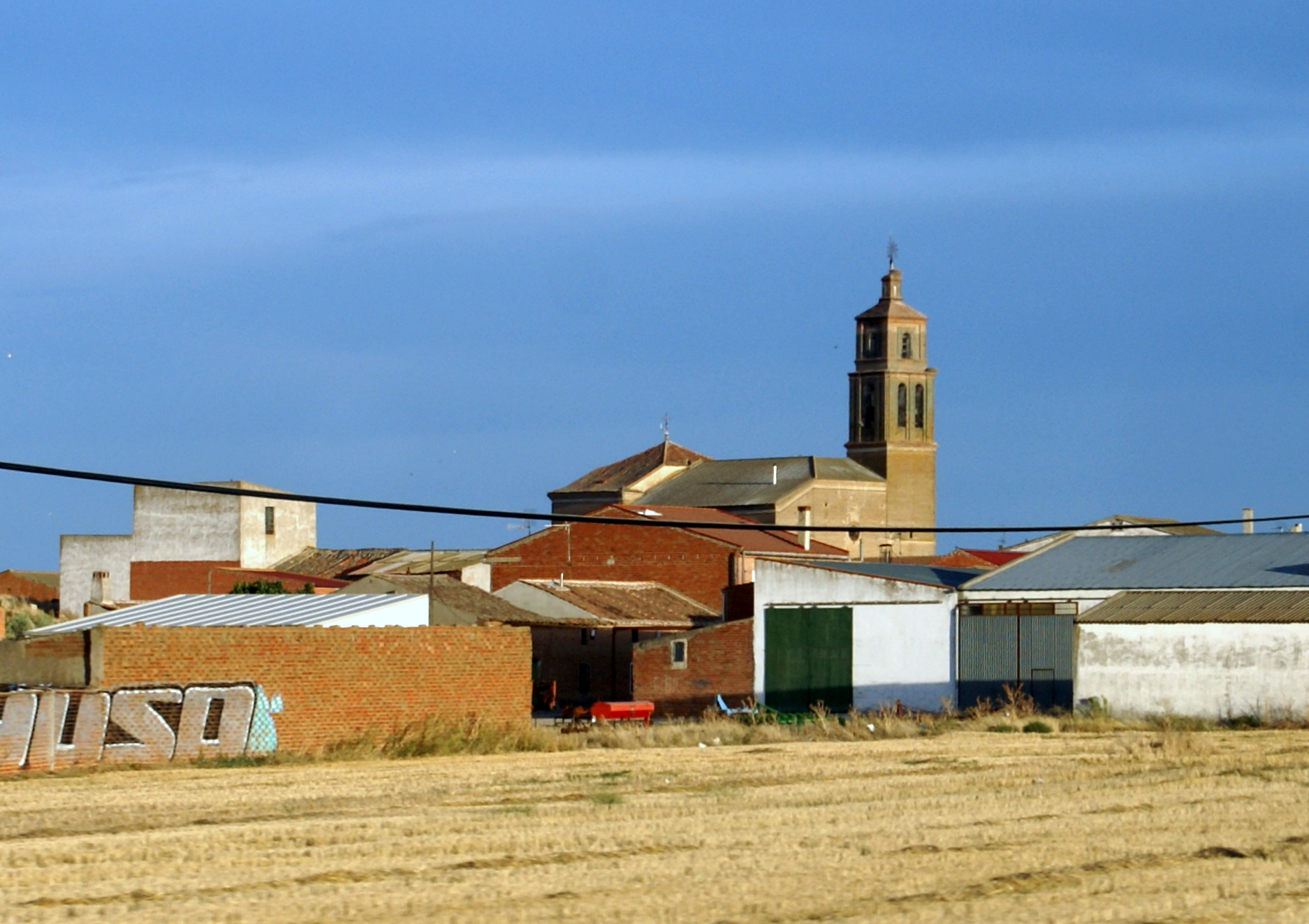 View of Ataquines, Valladolid, Spain.